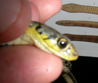 Buff-striped keelback, Amphiesma stolata, Family Colubridinae, Serpentes. Keelback being identified with a field guide. Image taken on 17 Jul 06 in Binnaguri, Duars, northern West Bengal, India by AshLin.